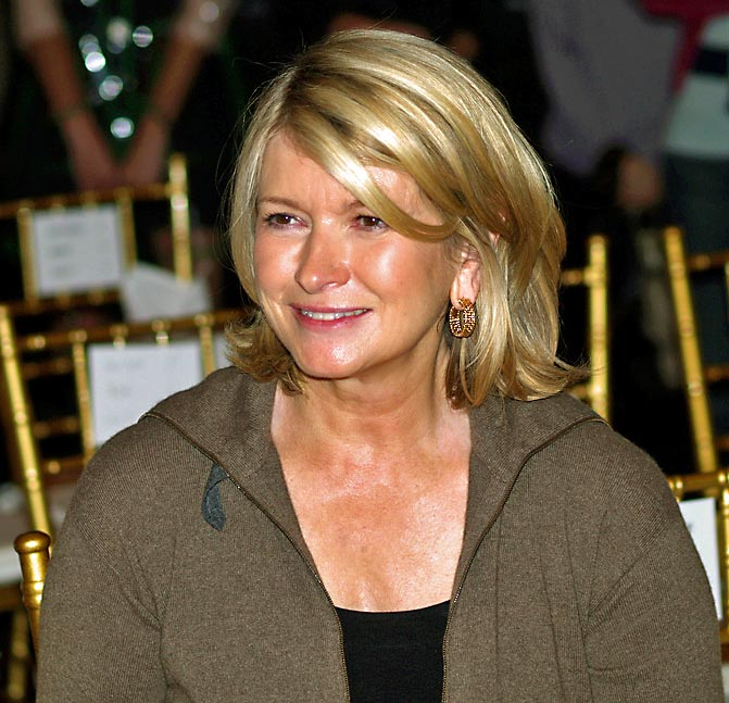 Martha Stewart at a 2006 Cynthia Rowley fashion show. Edited by User:Daniel Case